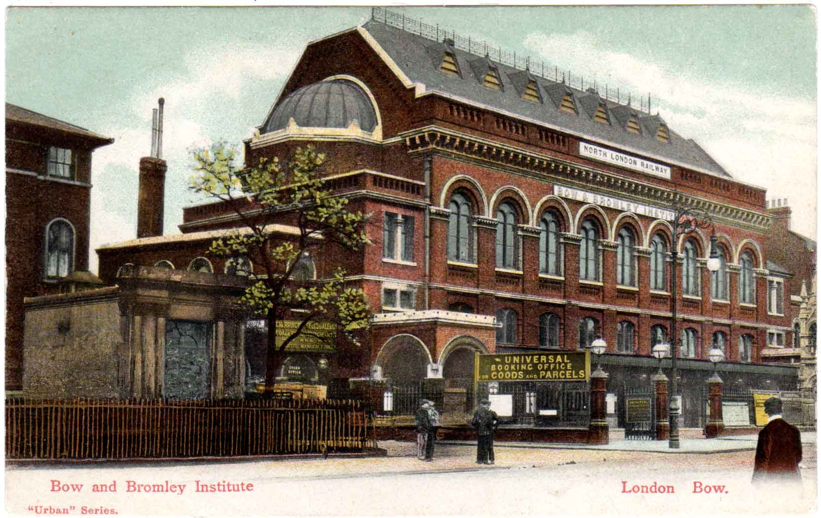 View of Bow and Bromley Institute circa 1907 from a postcard published by M & A Roberts